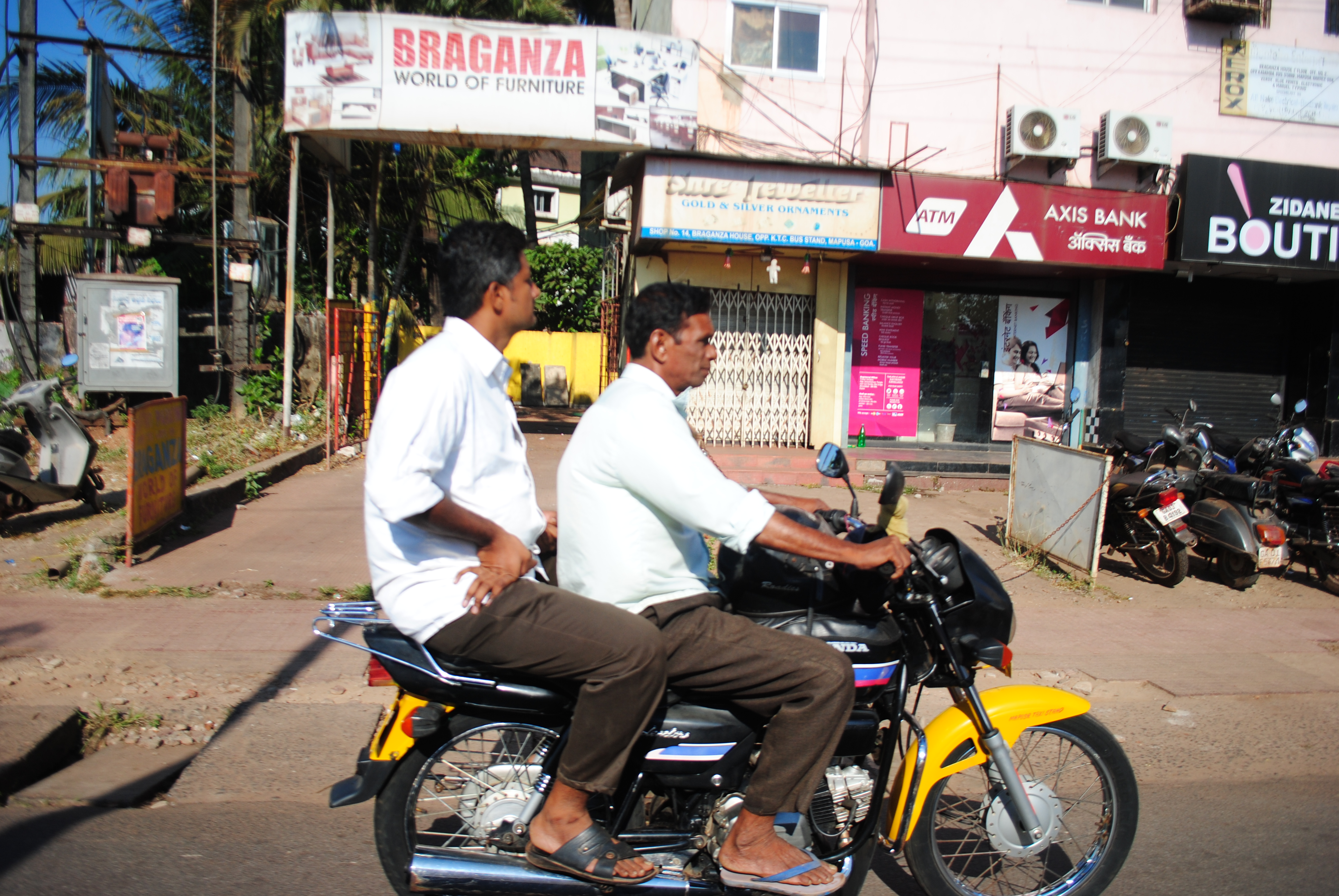 A type of public transportation method in Goa, India where the passenger rides pillion and pays the owner of the motorcycle a predetermined amount based on the distance of the journey.